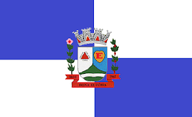 Flags of the city of Dona Eusébia, Minas Gerais, Brazil.